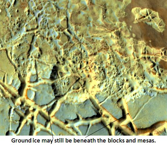 Blocks in Aram, as seen by themis at location 2.8 degrees north latitude and 21.1 degrees west longitude. Picture taken with Mars Odyssey's THEMIS. Photo credit NASA/JPL/ASU.